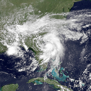 Hurricane Bob on July 24, 1985. At the time Bob had winds of 65 knts (75 mph, 120 kph), 1-min sustained and a pressure of 1003 mbar. This image was taken by the GOES-6 Satellite.